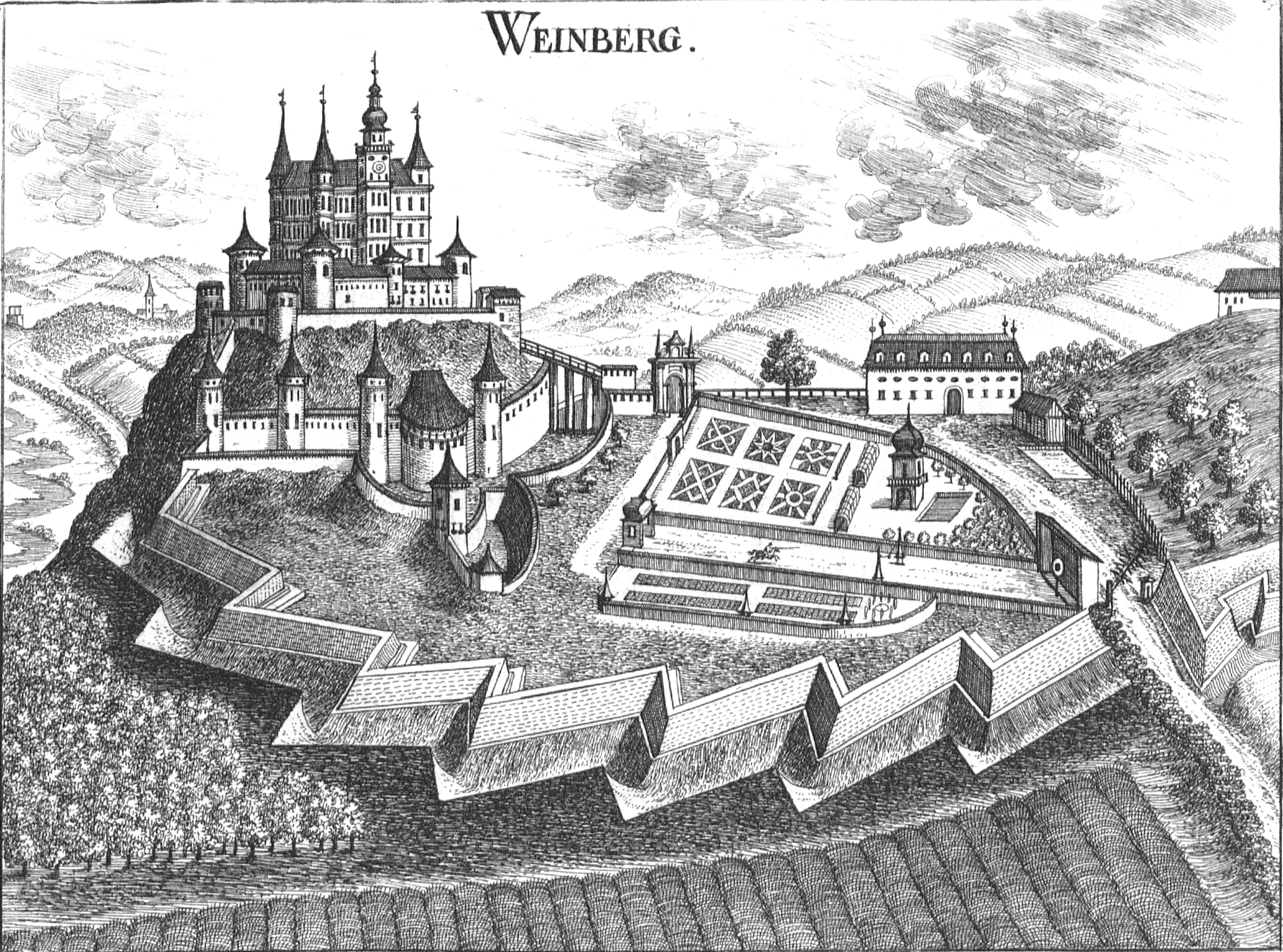 Castle Weinberg in Kefermarkt, southern side, Upper Austria, drawn by G. M. Vischer 1674.